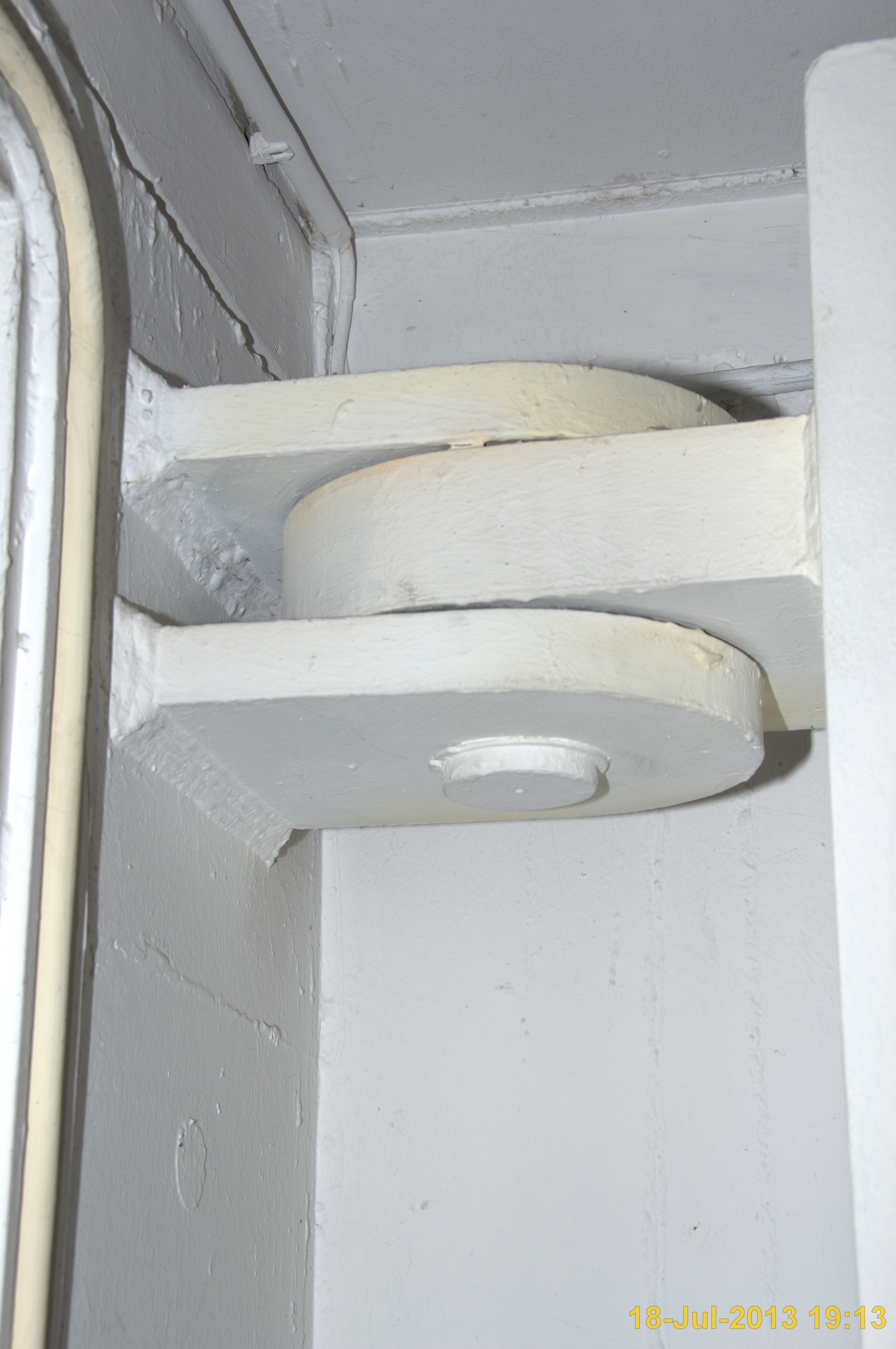 Larger German fire door for an Underground fallout or air raid shelter inside the parking garage of a hotel.